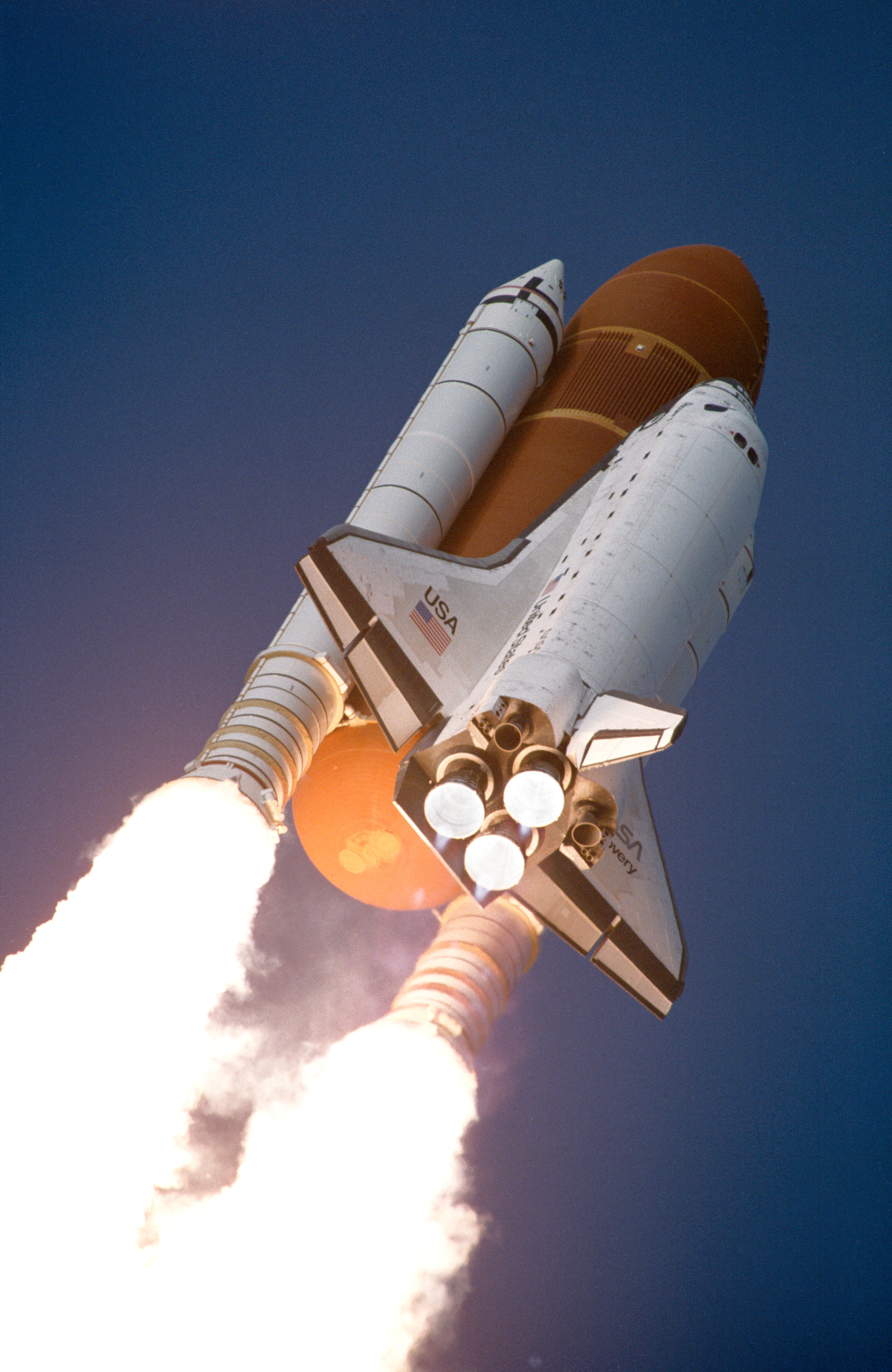 STS-53 Discovery, Orbiter Vehicle (OV) 103, rises into sky after KSC liftoff. STS-53 Discovery, Orbiter Vehicle (OV) 103, rises into the clear morning sky after liftoff from Kennedy Space Center (KSC) Launch Complex (LC) Pad 39A at 8:24:00 am (Eastern Standard Time (EST)). This low angle view looks up at OV-103, atop the external tank (ET) and flanked by two solid rocket boosters (SRBs), as it begins its roll maneuver. Exhaust plumes billow from the SRB skirts. The diamond shock effect is visible at the three space shuttle main engine (SSME) nozzles.